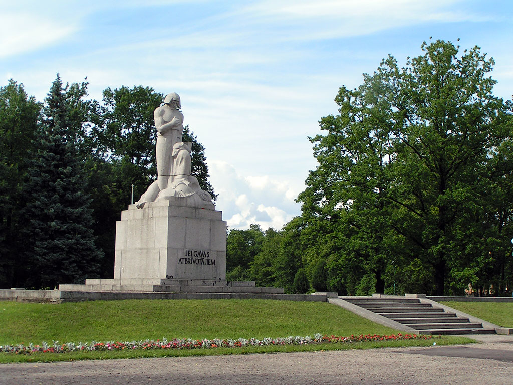 Lacplesis monument dedicated to Jelgava liberators (Latvian War of Independence). Jelgava, Latvia